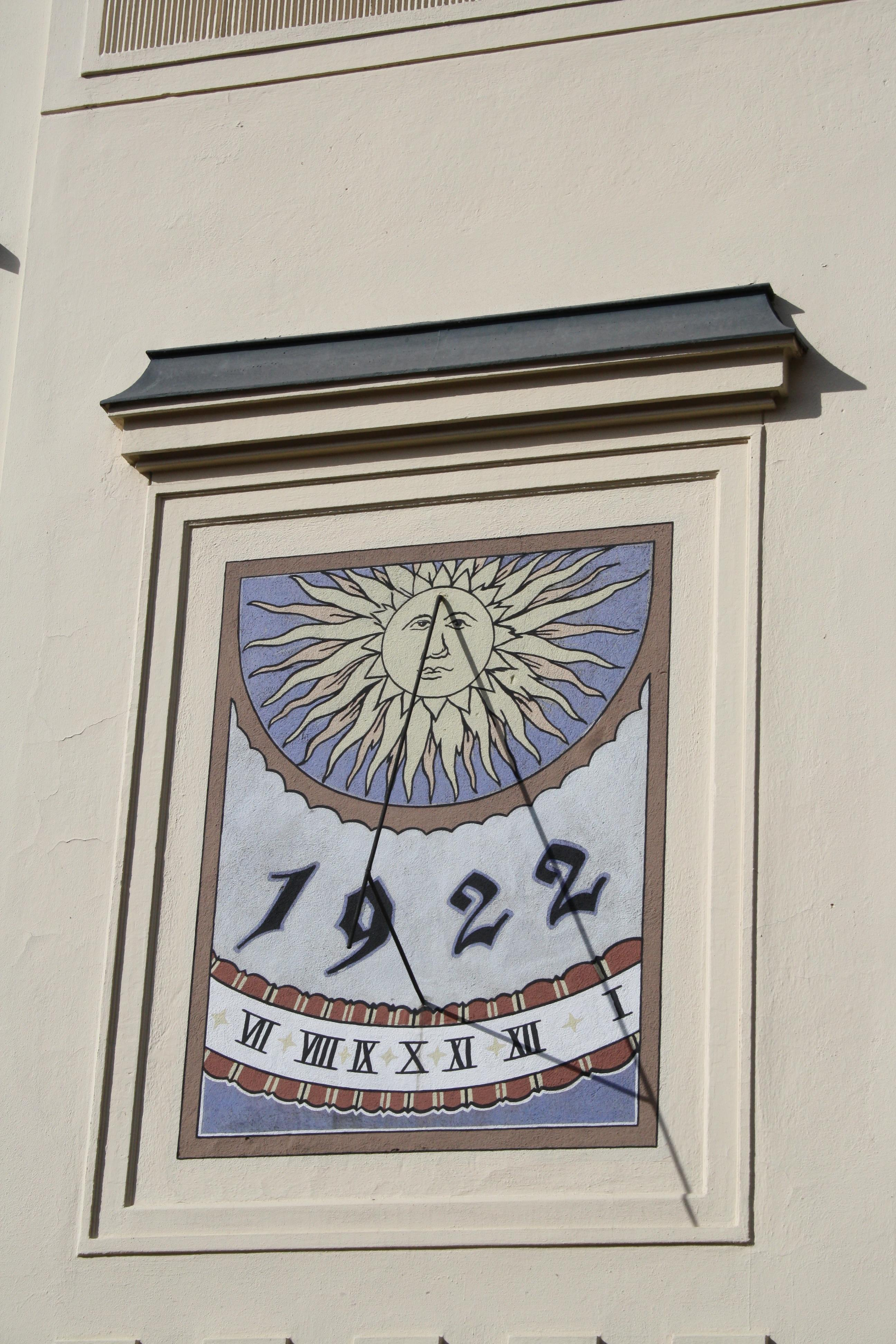 Sundial in Brno, Černá Pole.